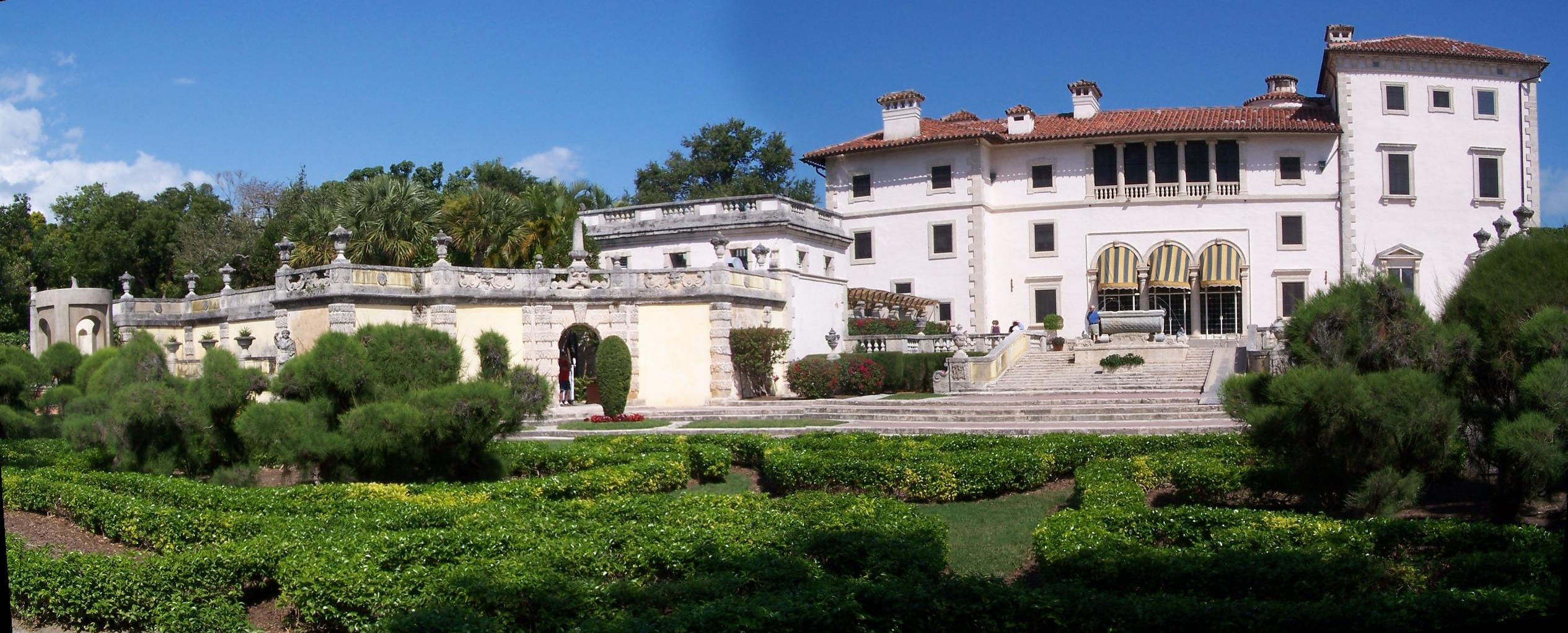 Villa Vizcaya and gardens, Miami, FL — The view is looking north toward the house from the south gardens. Museum house, panoramic stitched photo from two originals